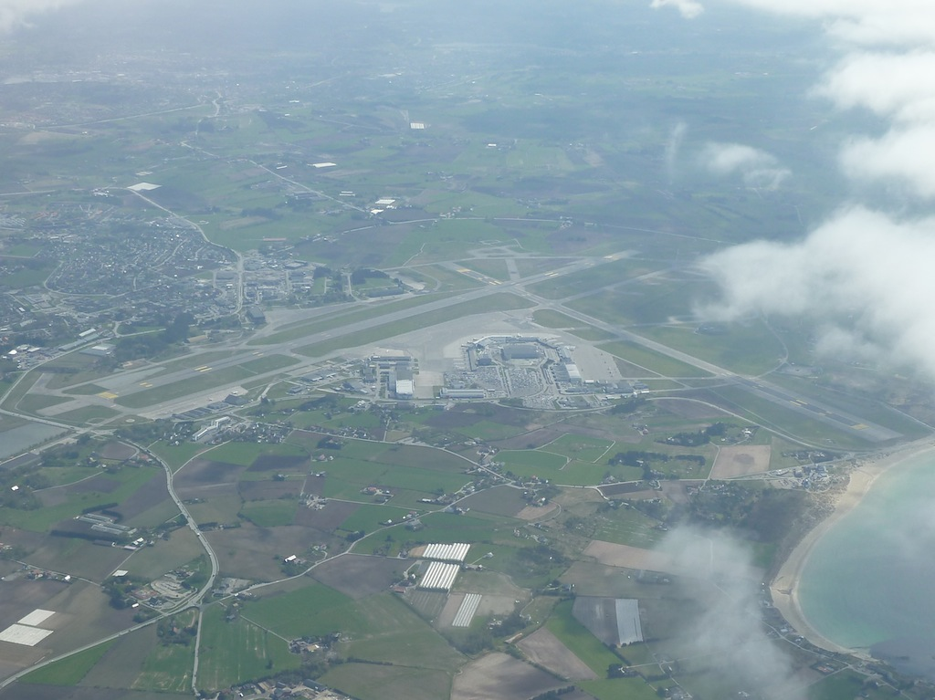 Aerial shot of Stavanger-Sola airport 2011.